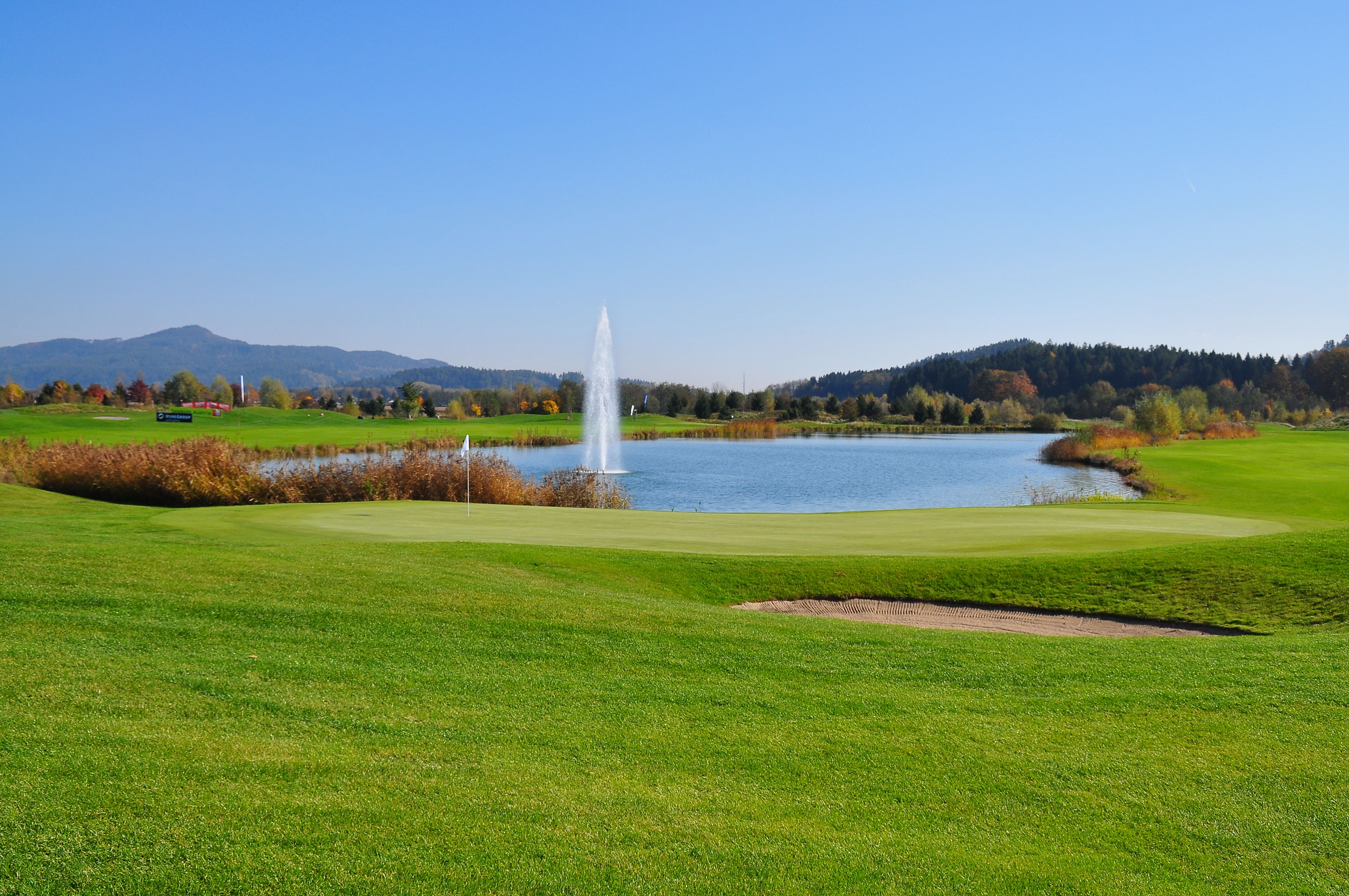 Golf course in Klagenfurt-Seltenheim in the locality Seltenheim, 14th district “Woelfnitz” of the Carinthian capital Klagenfurt on the Lake Woerth, Carinthia, Austria